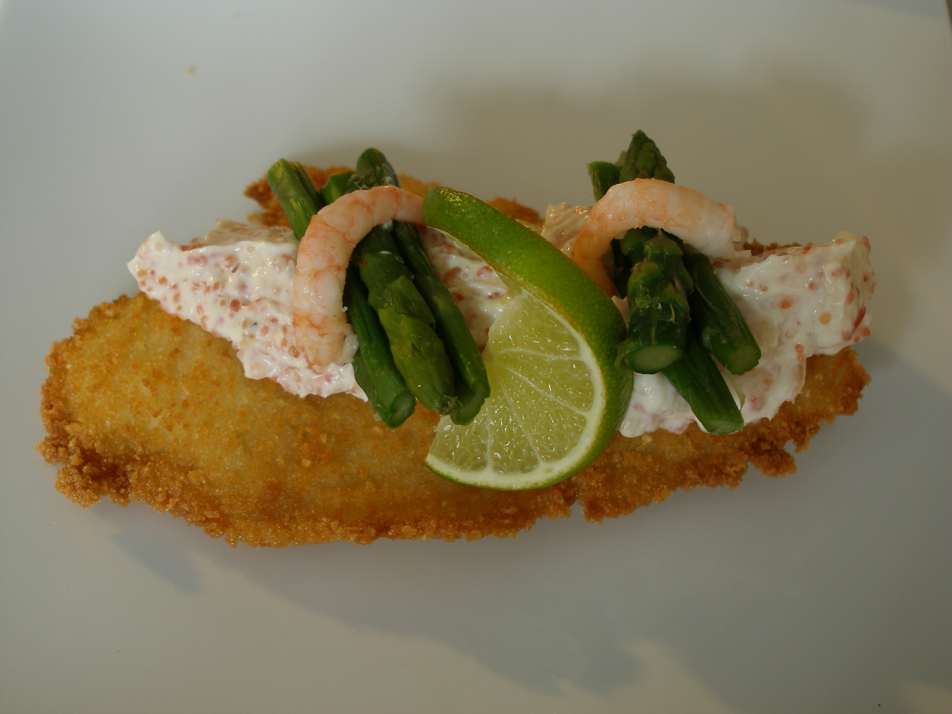 Decorated open-faced sandwich (pyntet smørrebrød) with fried plaice fillet from Restaurant Ida Davidsen, St. Kongensgade 70, Copenhagen, Denmark